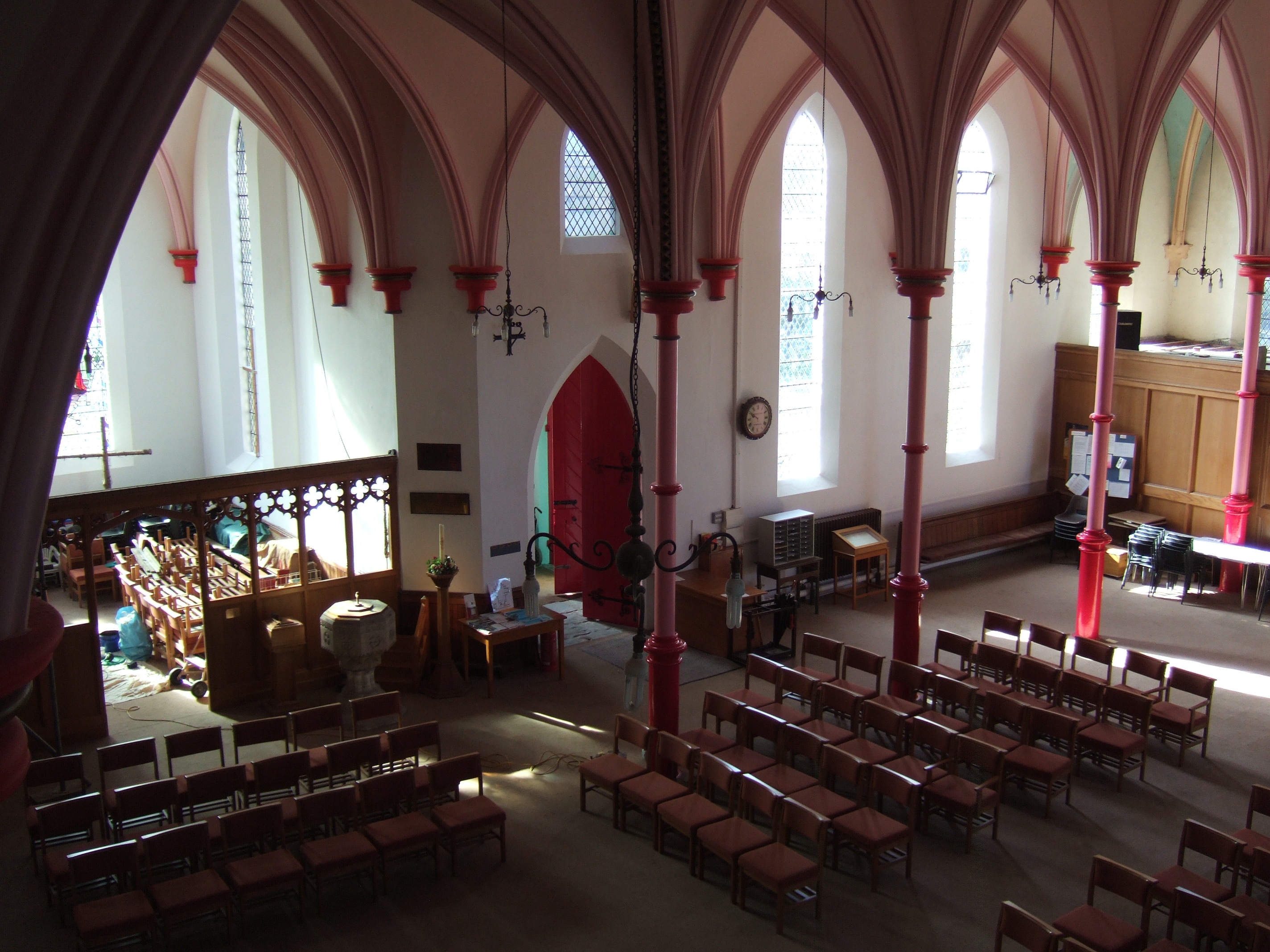 Holy Trinity Church, Trowbridge, Wiltshire, England.